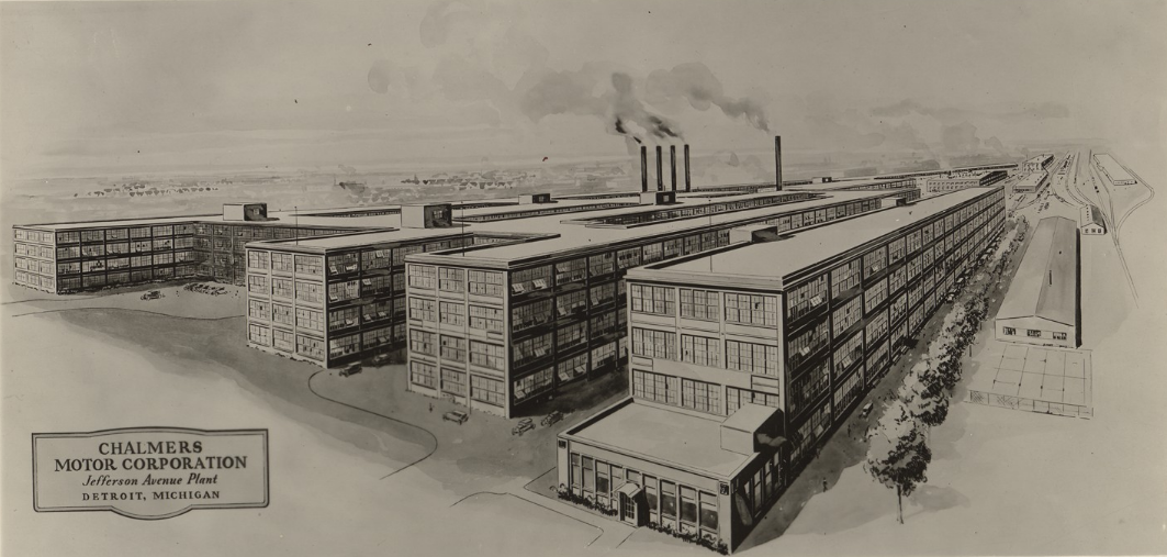 8x10 black and white photograph of an illustration of the Chalmers Motor Company Jefferson Avenue factory, Special Collections, Detroit Public Library, Wayne State University